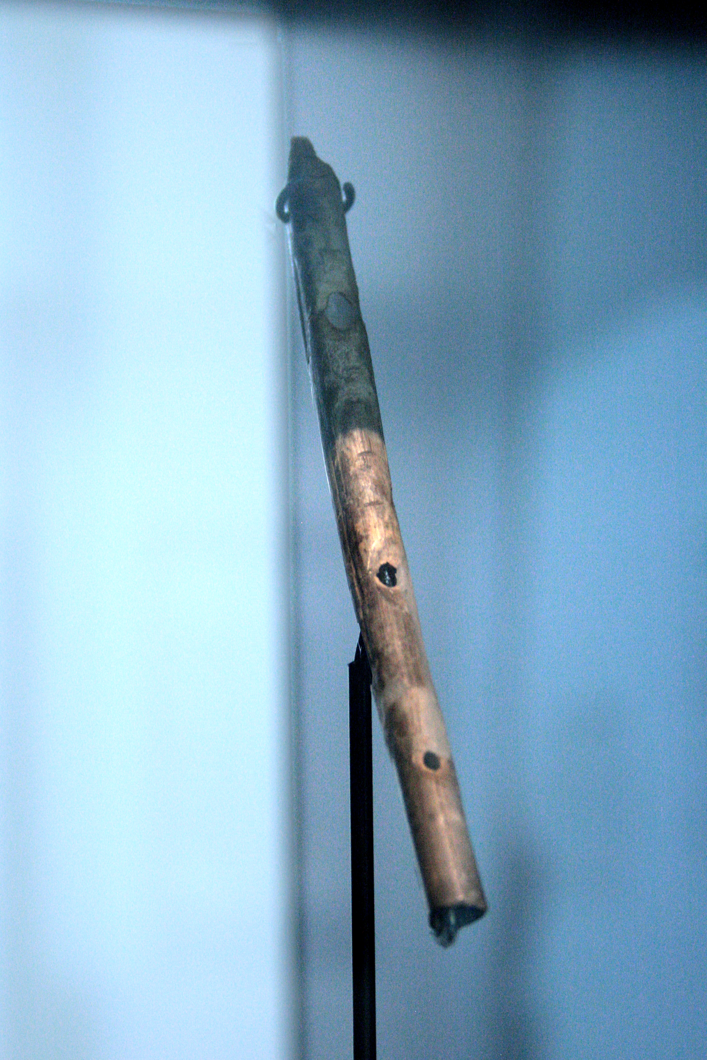 Flute. Age: ca. 35.000 - 40.000 years.